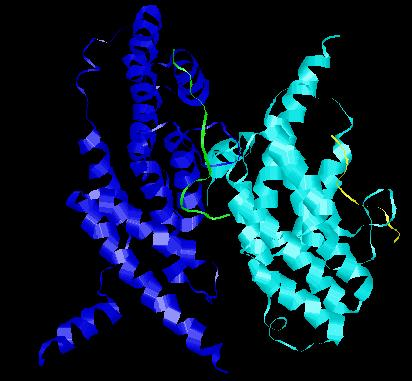 Crystal Structure Of Trf2 Trfh Domain And Tin2 Peptide Complex.